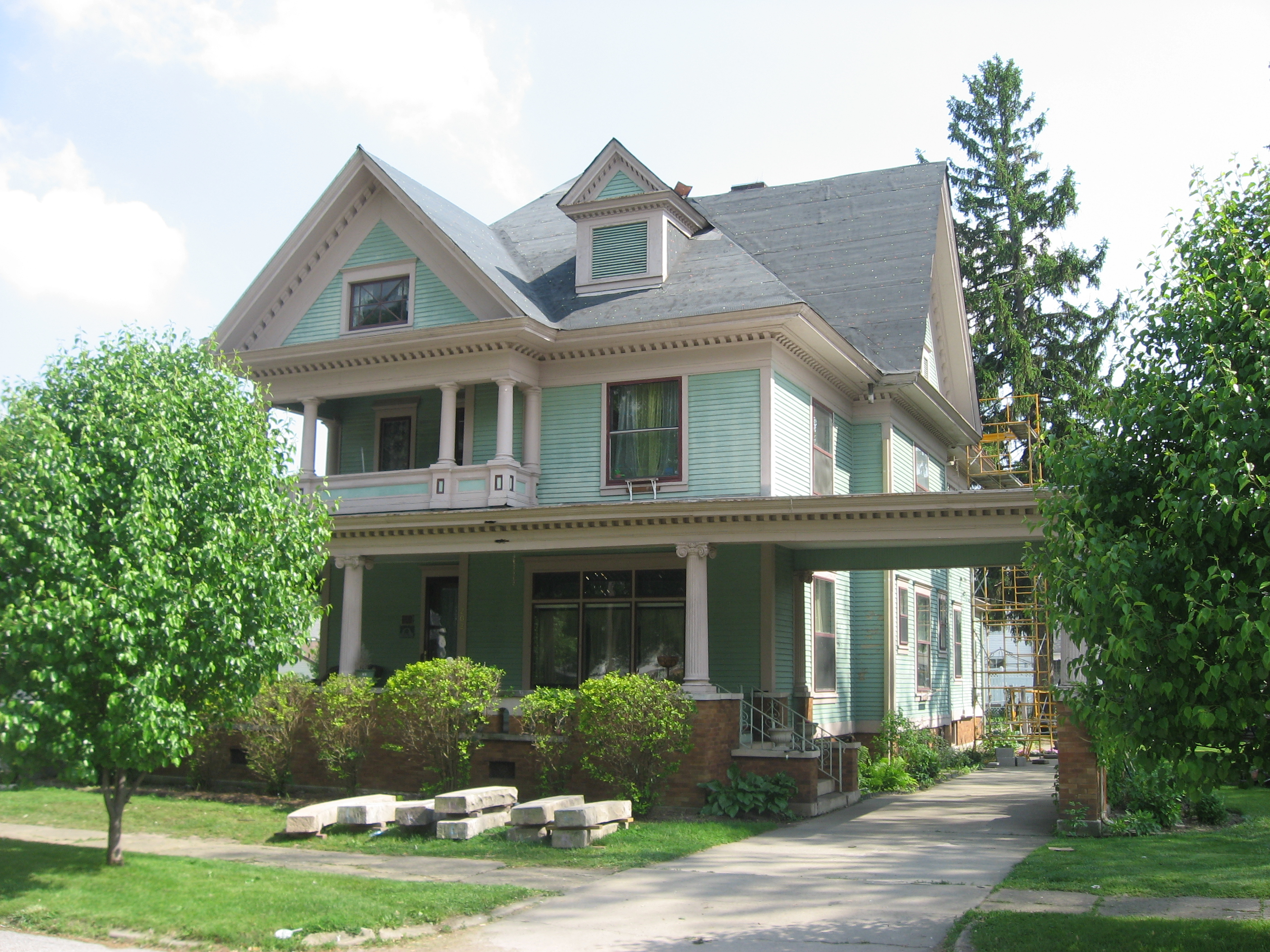 Front and western side of the David S. Heath House, located at 202 W. McConnell Street in Oxford, Indiana, United States. Built in 1908, it is listed on the National Register of Historic Places.